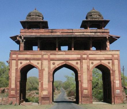 Picture taken in Fathepur Sikri in March 2006 by Nicolas Delerue. source. Original at [1]. Modified by User:Anupamsr.